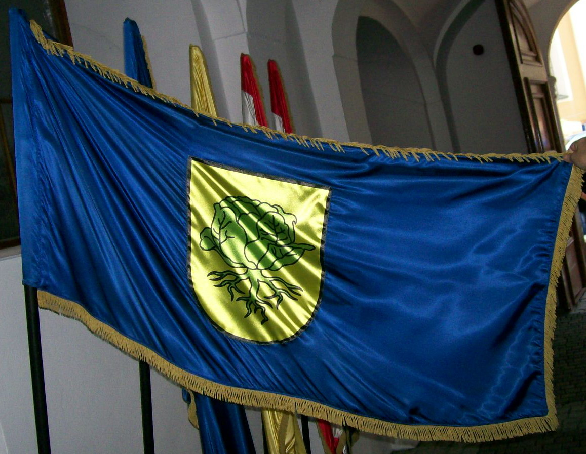 Flag of Municipality of Vidovec, Varaždin County, Croatia